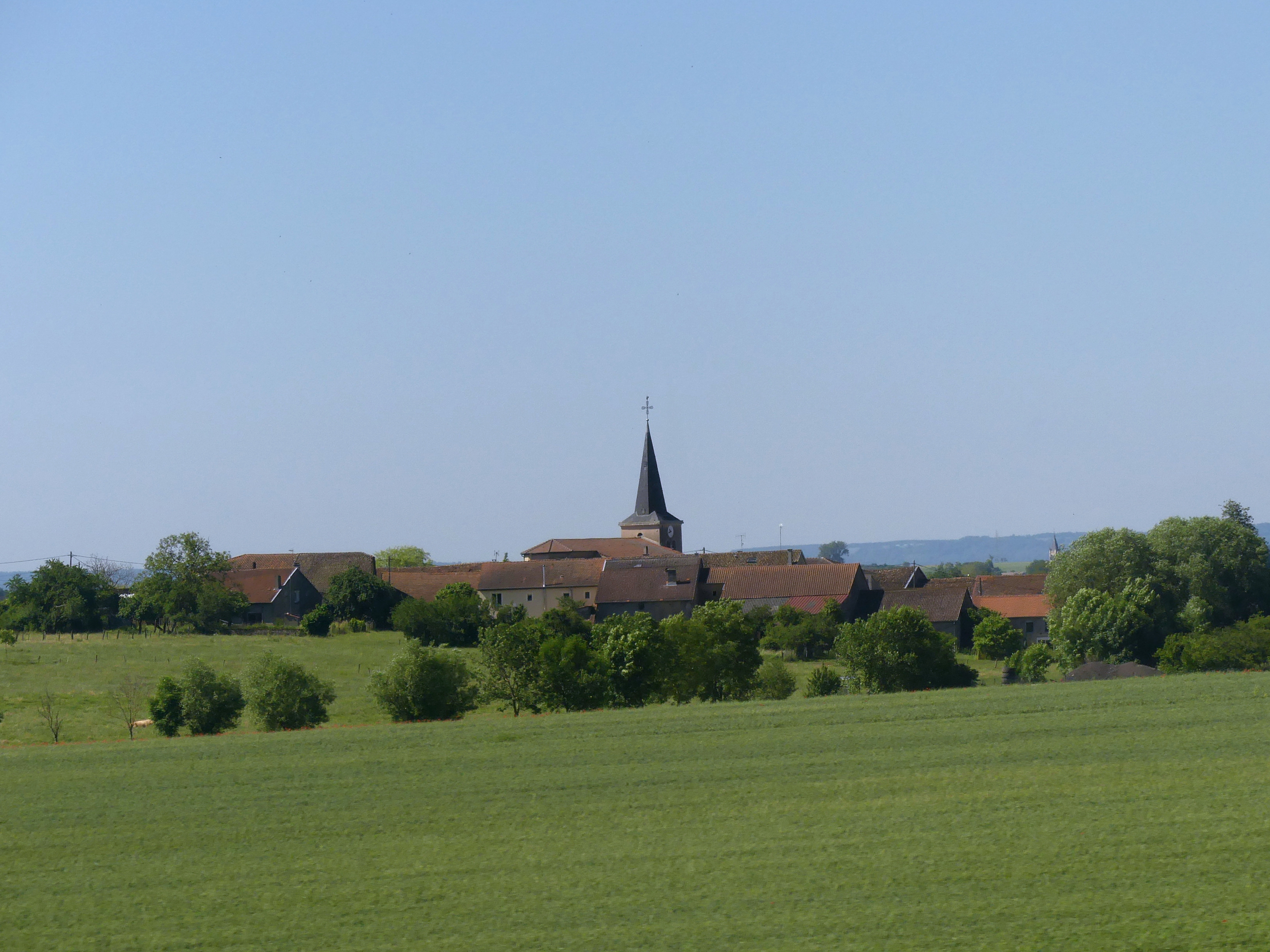 Sight, from the high speed railway line from Paris to Strasbourg, of Beney-en-Woëvre village, in Meuse, France.